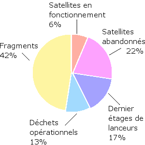 Distribution of space debris whose size is up to 10cm (source : CNES, [1]).